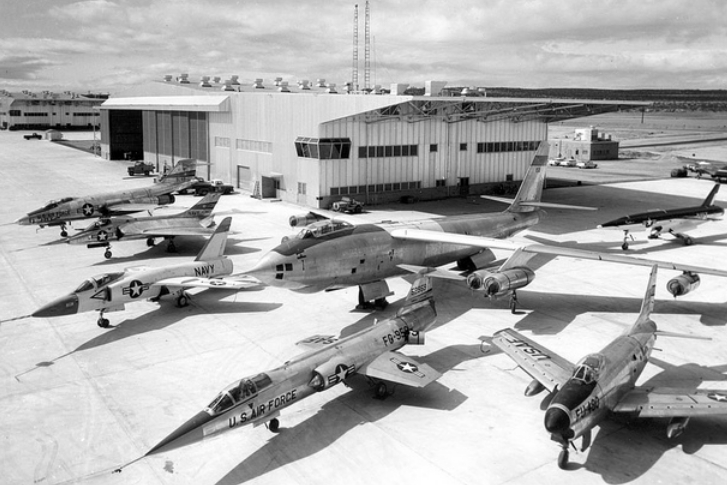 U.S. Navy and U.S. Air Force aircraft at the General Electric flight test facilities at Edwards Air Force Base, California (USA). The following aircraft are visible (l-r): McDonnell F-101A Voodoo (s/n 54-2418), Douglas F4D-1 Skyray (BuNo 124587), Grumman F11F-1F Super Tiger (BuNo 138647), Lockheed YF-104A Starfighter (s/n 55-2959), North American F-86D Sabre (s/n 50-480), Boeing B-47A Stratojet (s/n 49-1900), a Vought RGM-15 Regulus II missile. In the right background is the first XF4D-1 (BuNo 124586), which was used for spare parts.